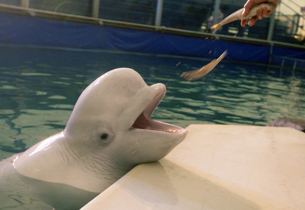 “White whales performing at the Moscow Zoo dolphinarium”. White [Beluha] whales performing at the Moscow Zoo dolphinarium.